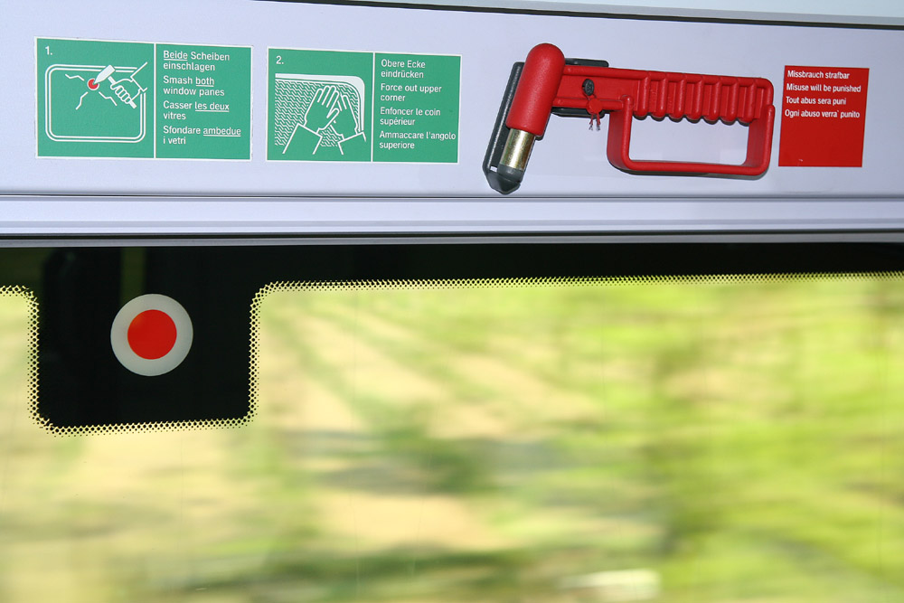 Predetermined breaking point and emergency hammer on a DB Class 401 (ICE 1) train.